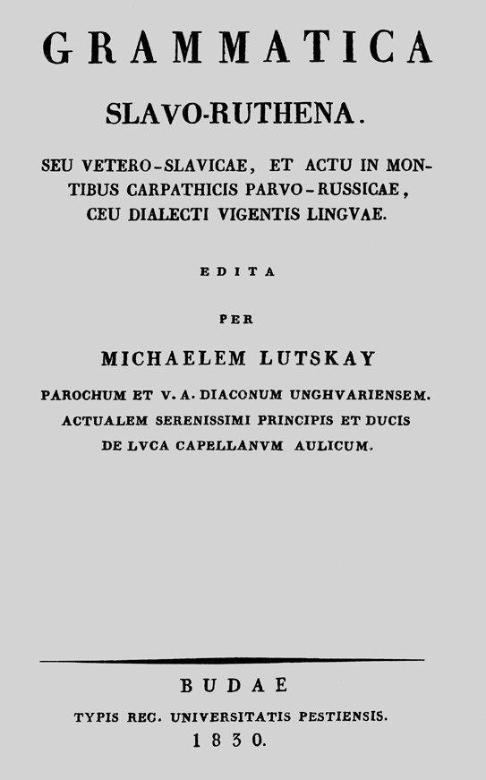 Title page of the Grammatica Slavo-Ruthena by M. Lutskay, Buda, 1830